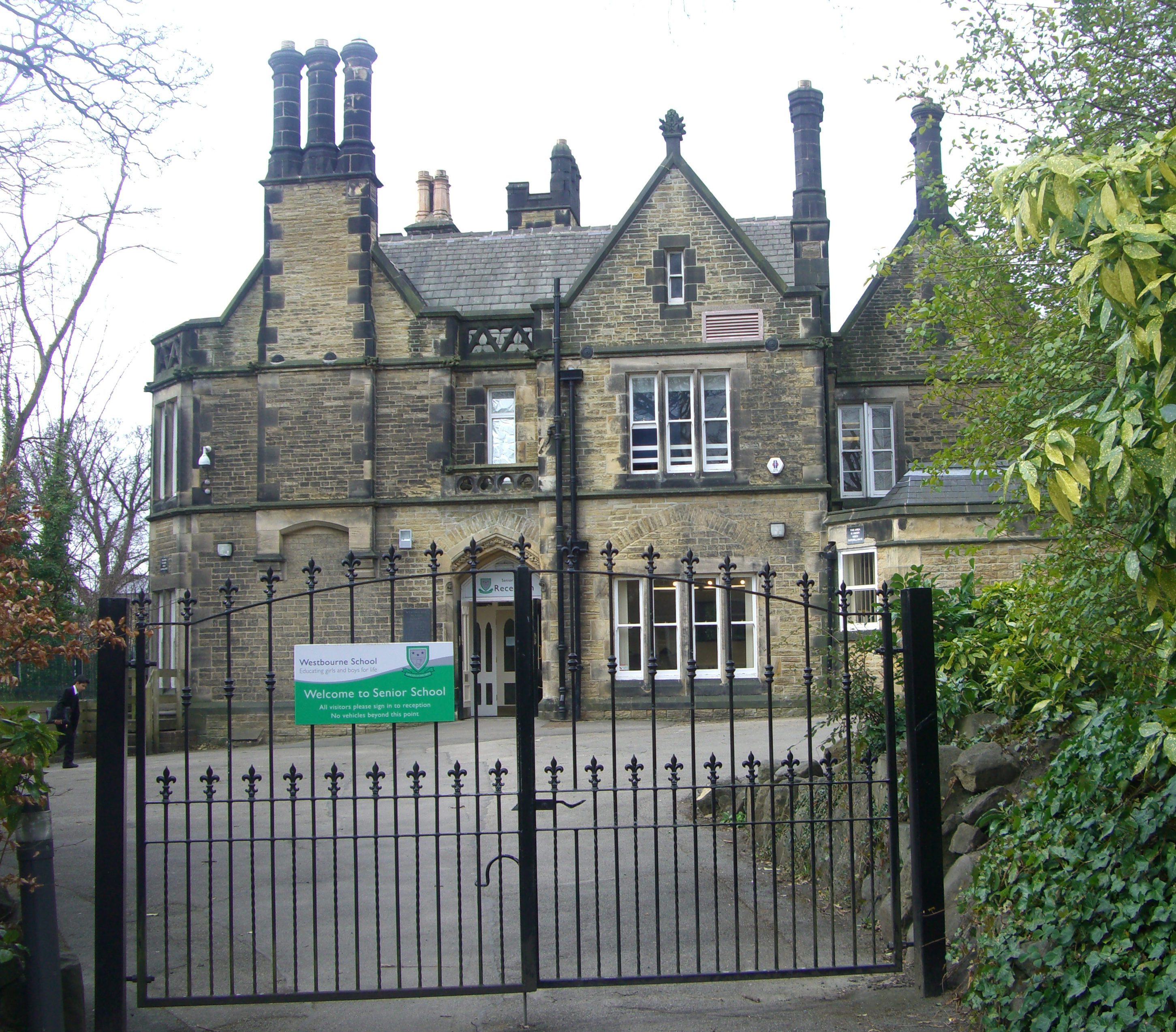 60 Westbourne Road in Sheffield, England. A Grade II listed building dating from 1871 which is now the Westbourne Senior School. It was formerly the studios of BBC Radio Sheffield.